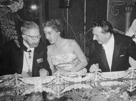 The king talks with the physicist's wife Mrs. Townes and Aleksandr Prokhorov